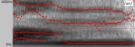 Spectrogram of the vowel /a/ followed by an unpalatalized consonant /n/